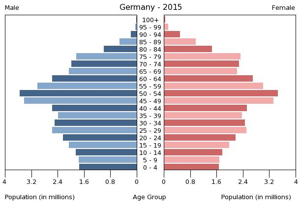 A population pyramid illustrates the age and sex structure of population and may provide insights about political and social stability, as well as economic development. The population is distributed along the horizontal axis, with males shown on the left and females on the right. The male and female populations are broken down into 5-year age groups represented as horizontal bars along the vertical axis, with the youngest age groups at the bottom and the oldest at the top. The shape of the population pyramid gradually evolves over time based on fertility, mortality, and international migration trends.